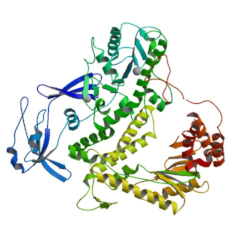 from the protein data base, thermostable DNA Polymerase from Pyrococcus furiosus